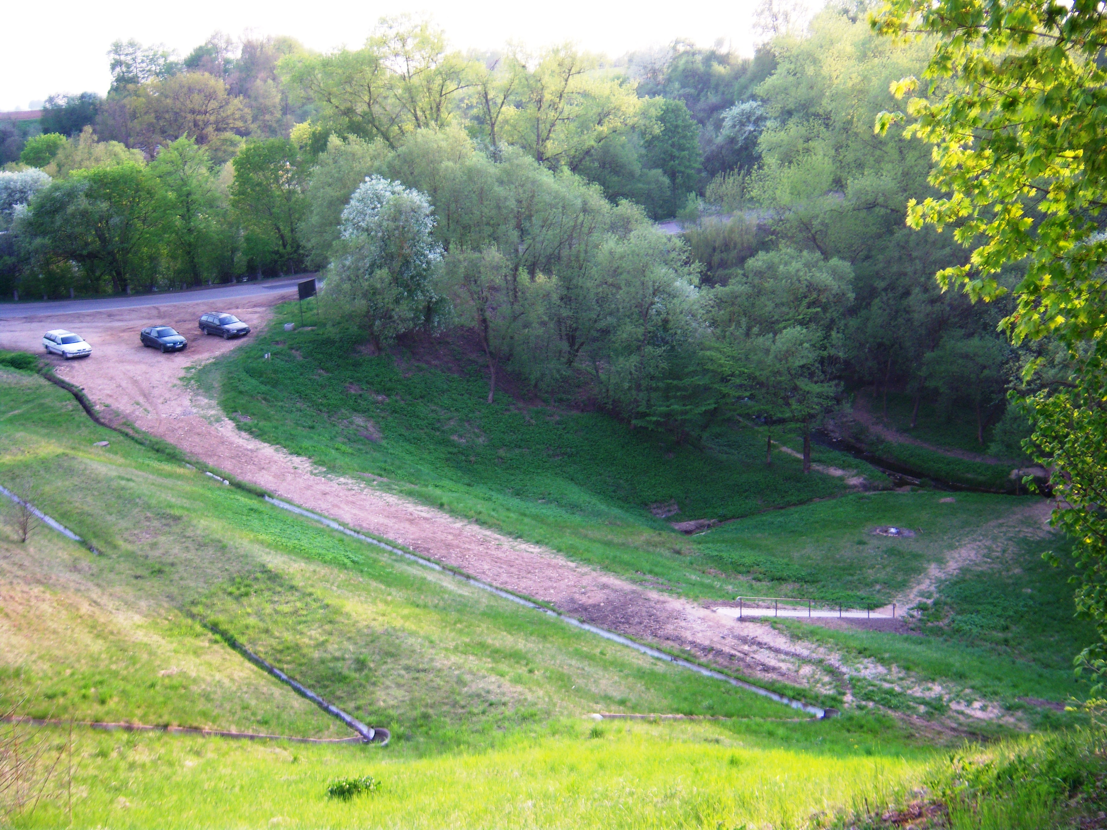 Marva stream valley by Aleksotas aerodrome, Kaunas. Lithuania